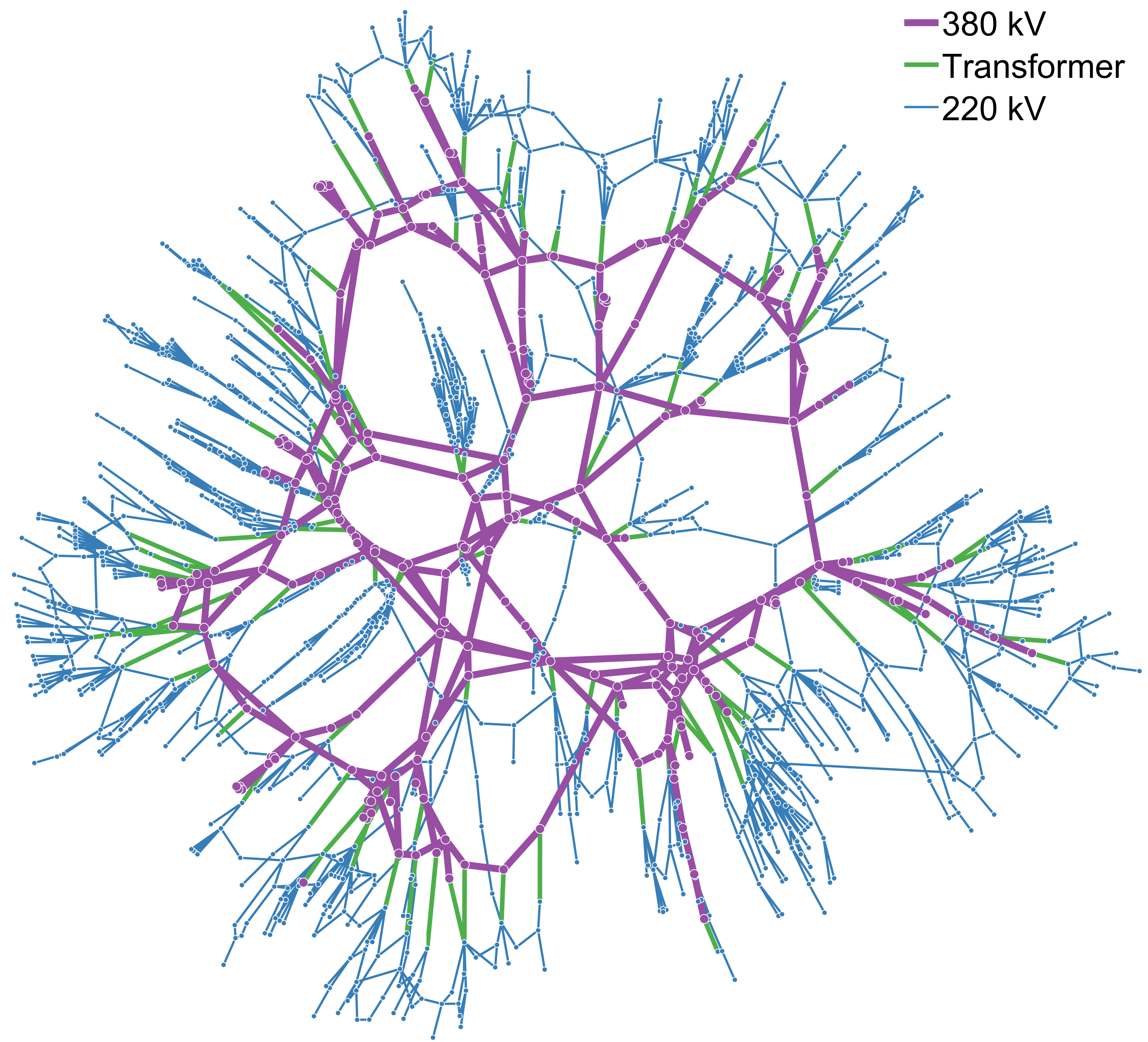 This network diagram was created using techniques described in: Cuffe, P. and Keane, A., 2017. Visualizing the electrical structure of power systems. IEEE Systems Journal, 11(3), pp.1810-1821. The test power system is described in: Coffrin, C., Gordon, D. and Scott, P., 2014. NESTA, the NICTA energy system test case archive. arXiv preprint arXiv:1411.0359. Similar network visualisation are available at